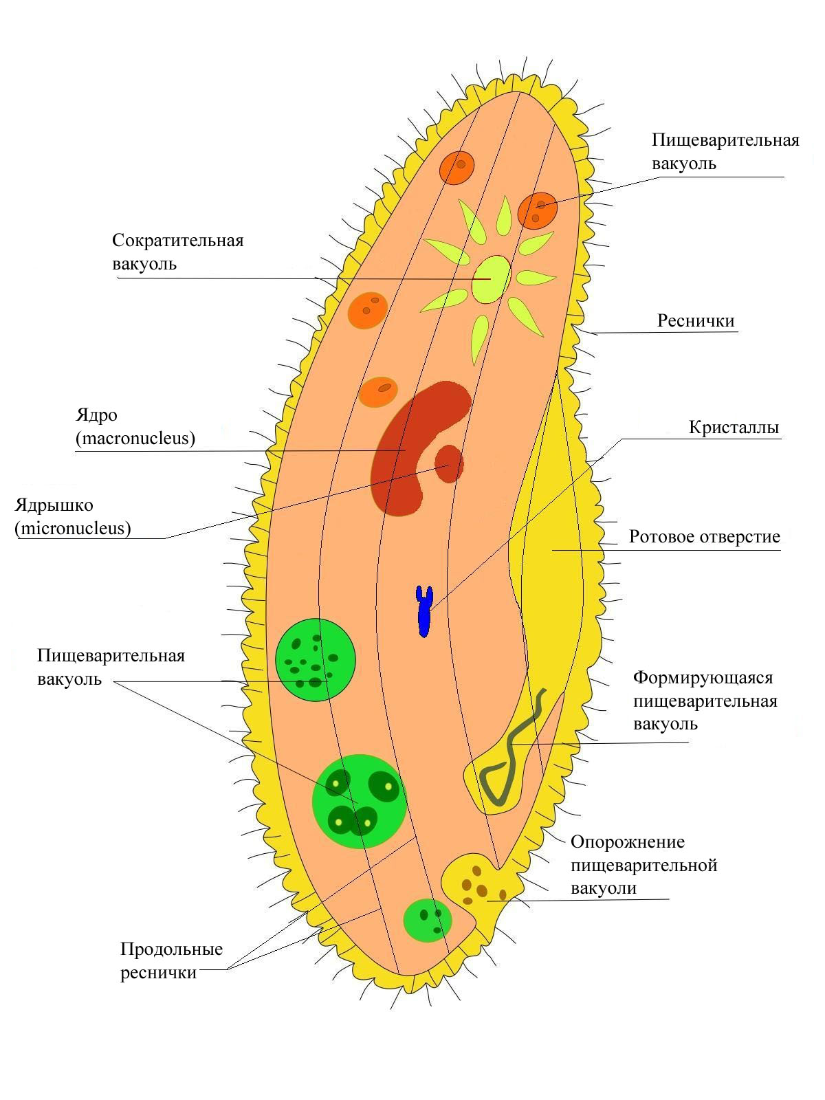 Paramecium caudatum with legend in Russian